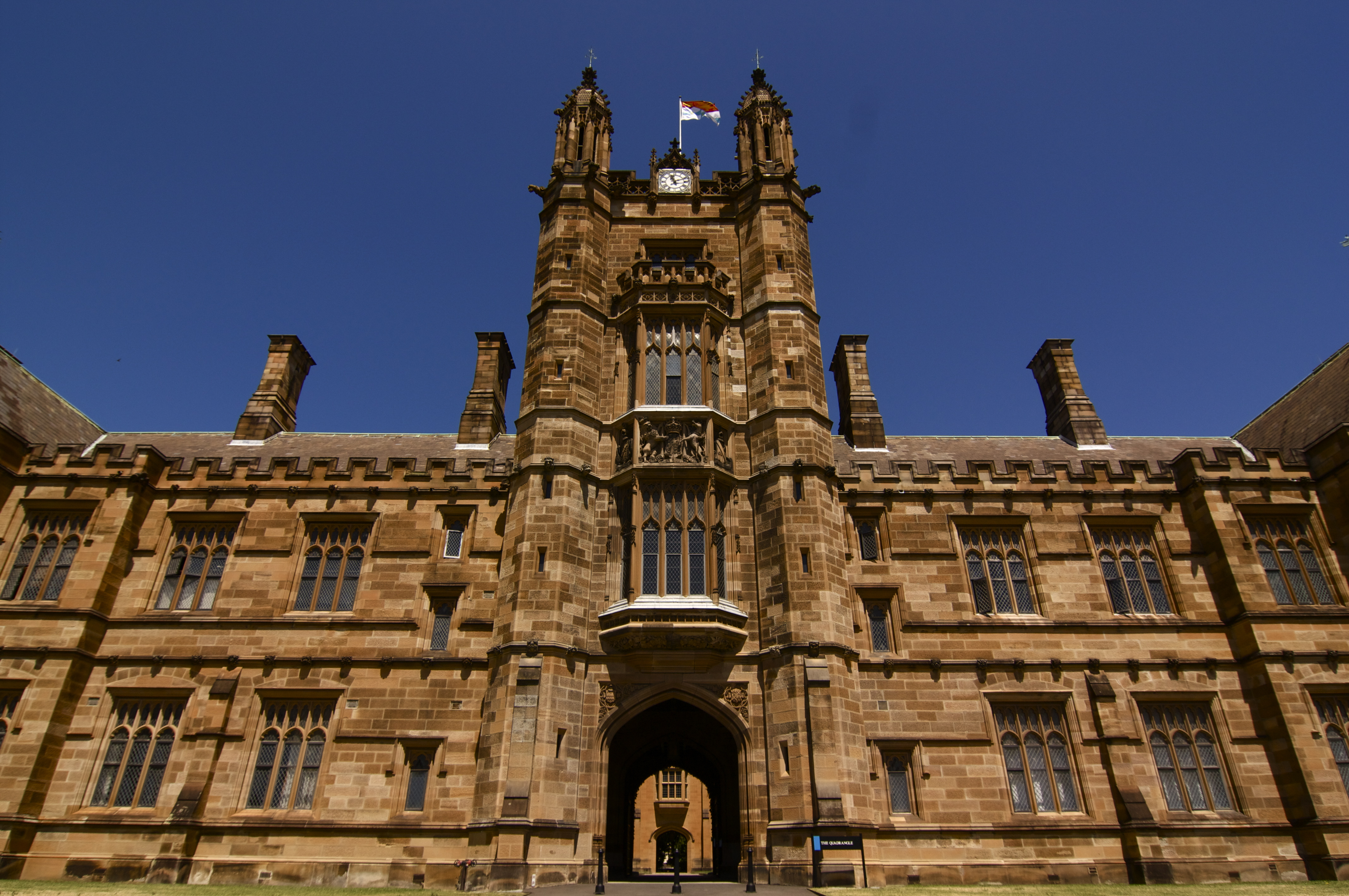 The somewhat iconic Quadrangle building at the University of Sydney on a clear summer's day. Taken December 13 2009.